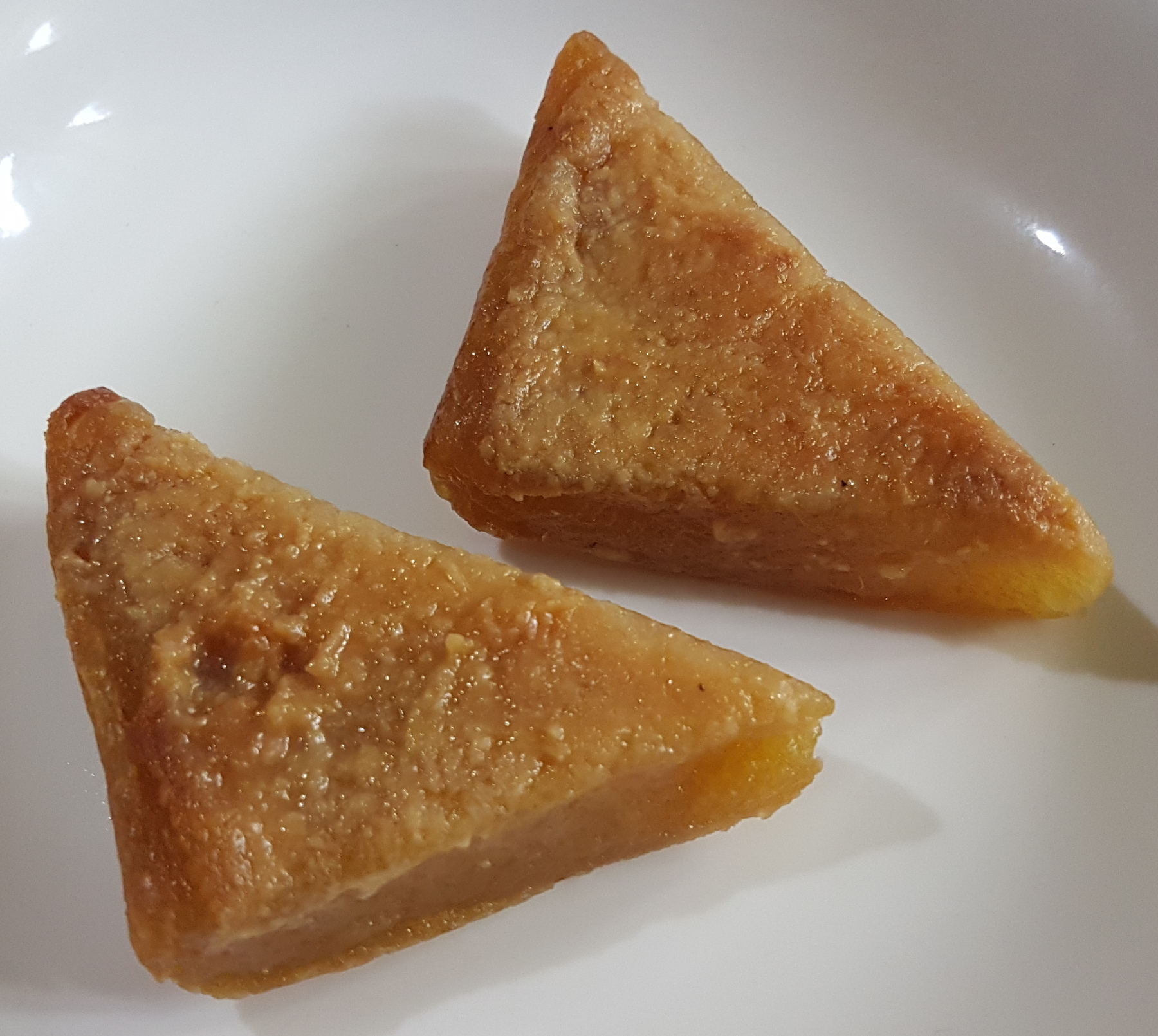 Bibingkang kamoteng kahoy (commonly simply "cassava cake" in Philippine English), cakes of cassava flour and coconut milk traditionally baked on coals from the Philippines